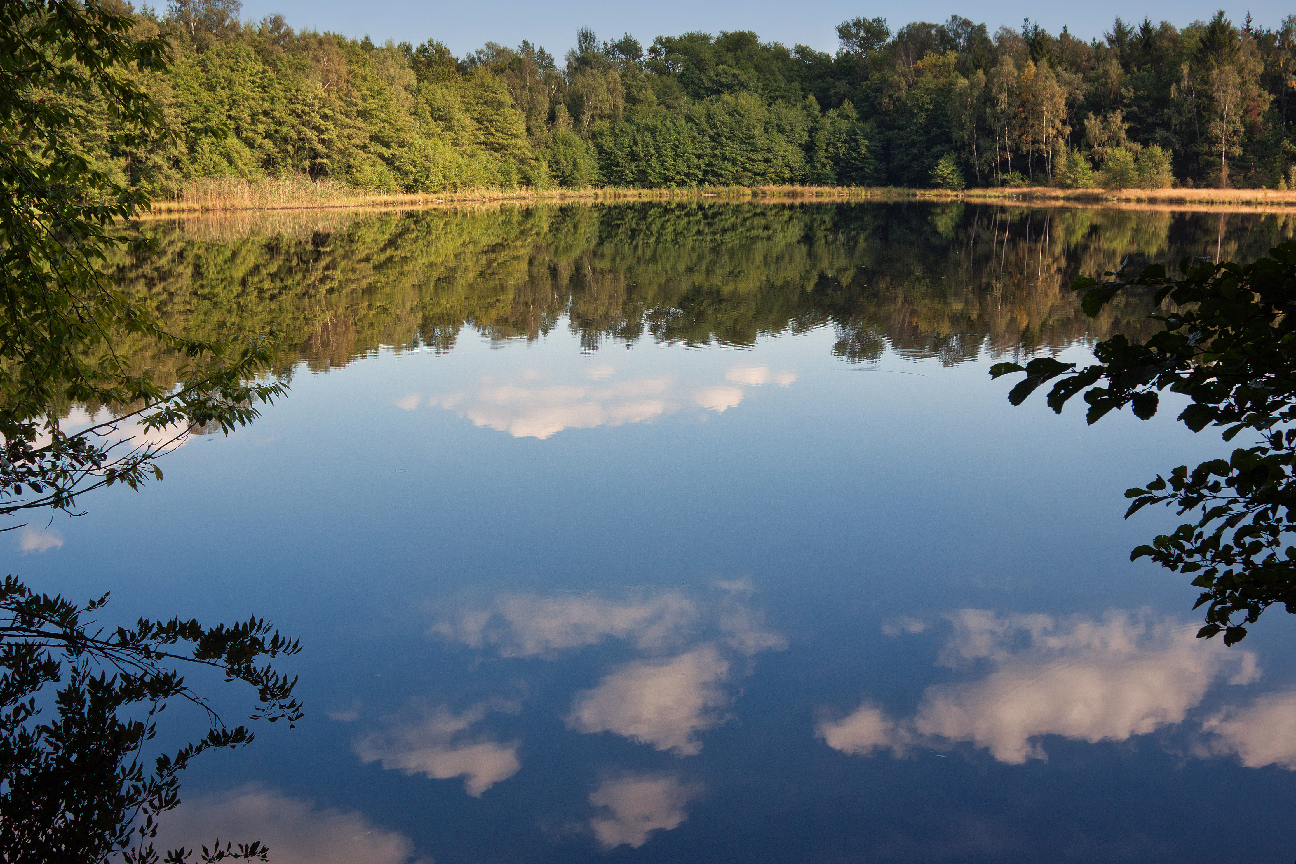 Mittelteich, Lake near Freiberg, Saxony